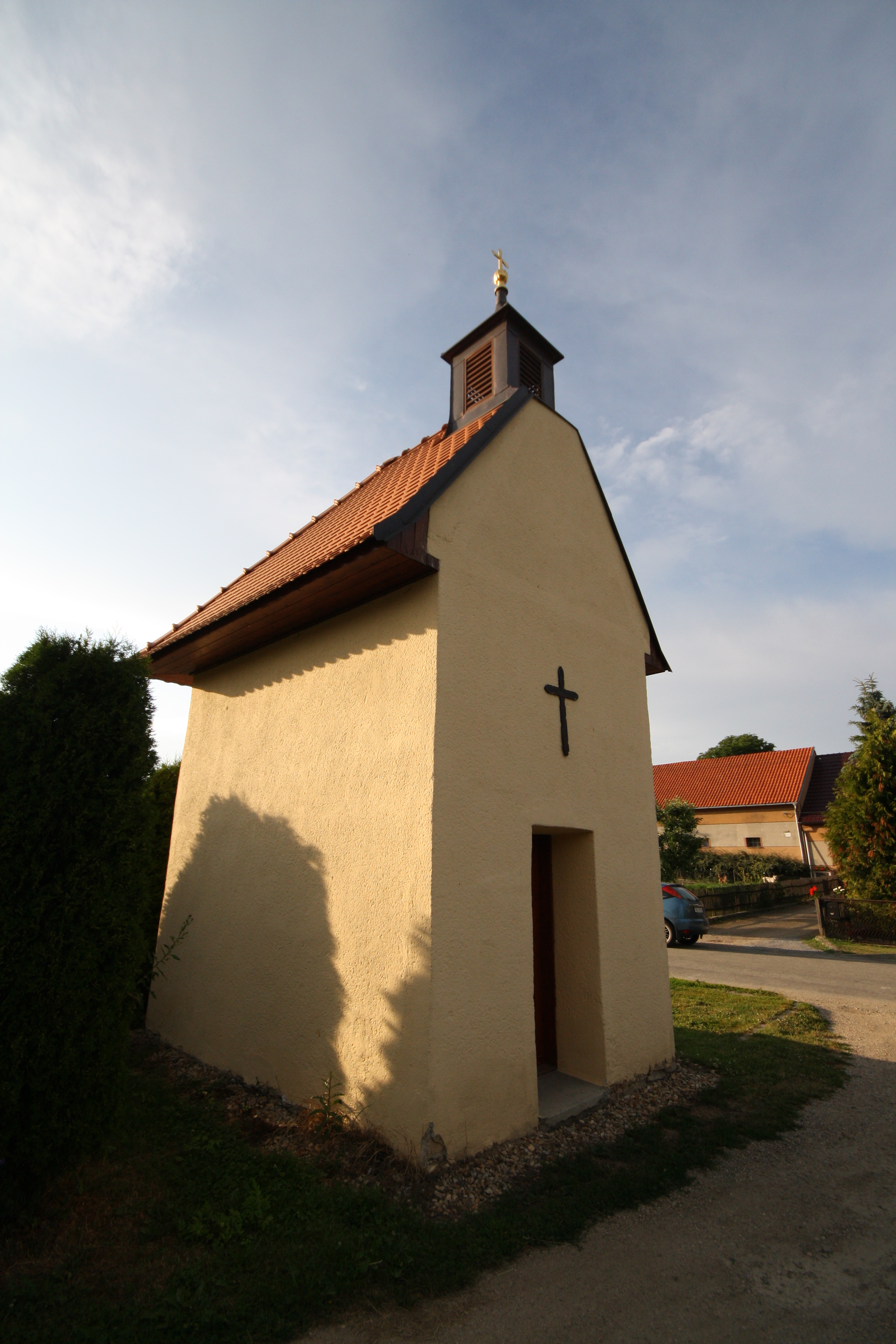 Chapel in Krokočín, Třebíč District.